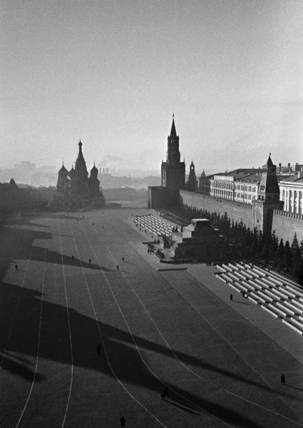 “Red Square, Moscow”. Red Square, Moscow.